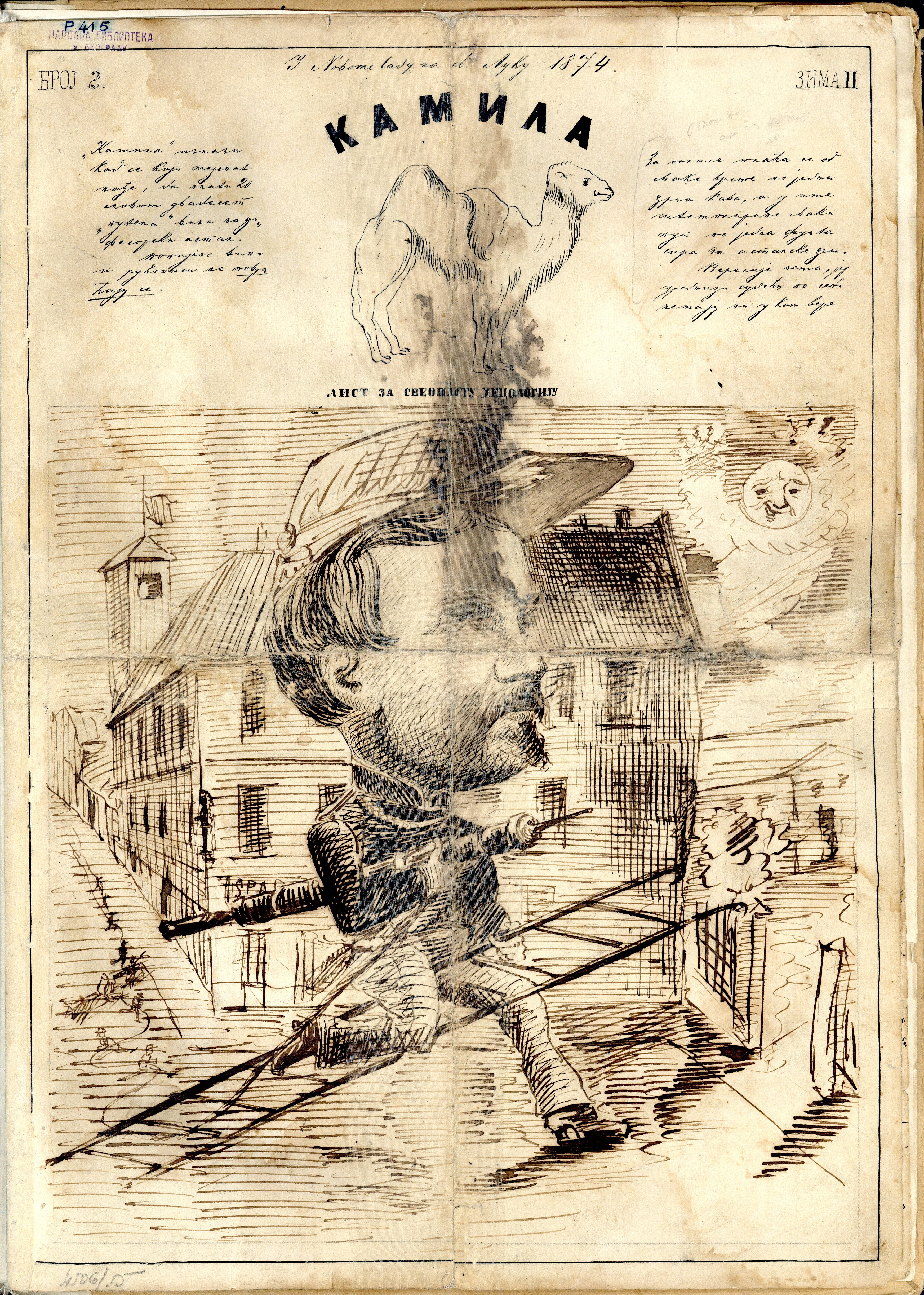 Magazine Kamila, broj 2, 1874, Novi Sad, Serbia Srpski (latinica): List Kamila, broj 2, 1874, Novi Sad, Srbija